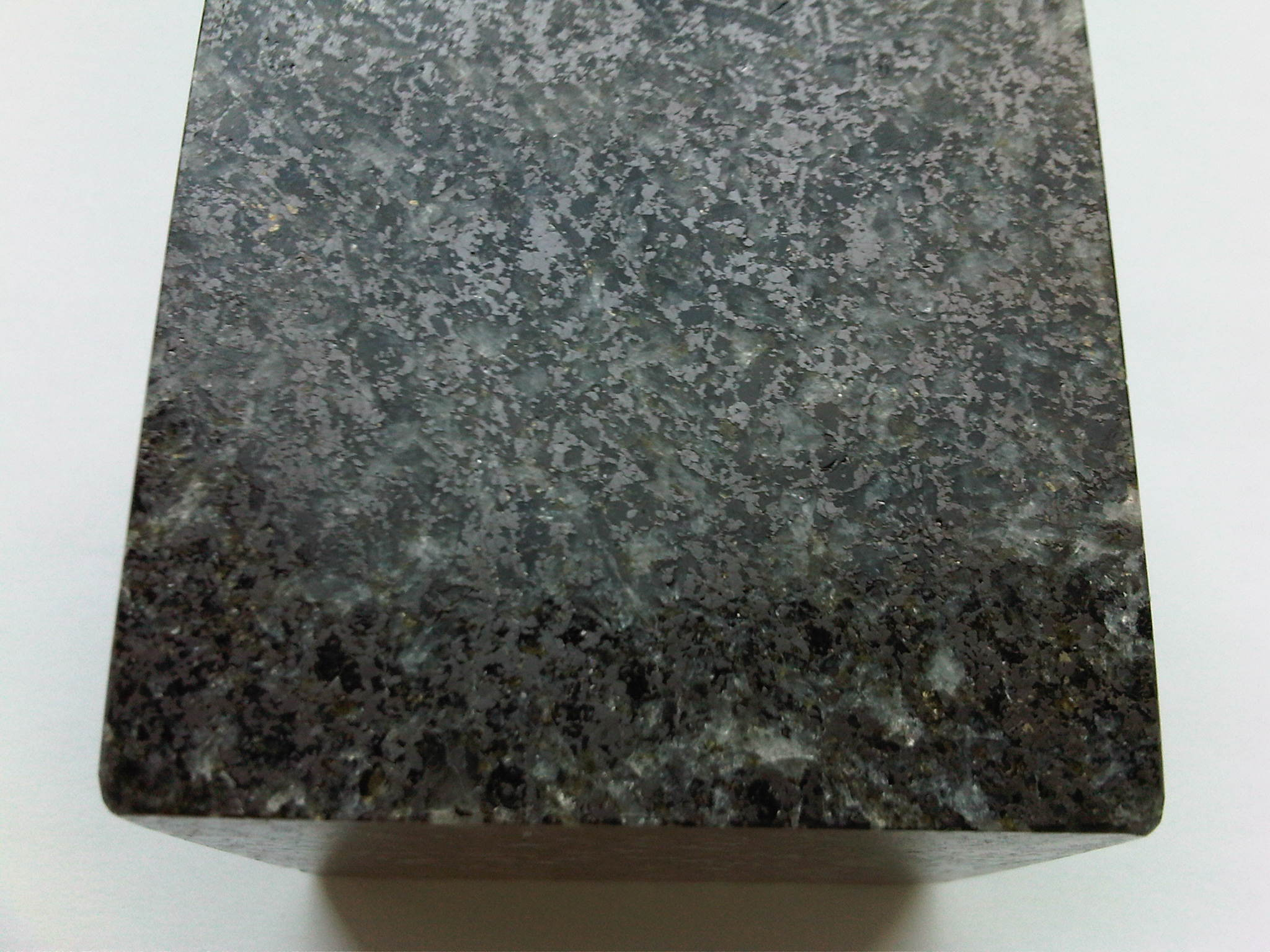 Ilmenite mineral specimen, cubed and polished. Length of edge 5 cm. Provided by Kronos International Inc. Picture = own work.